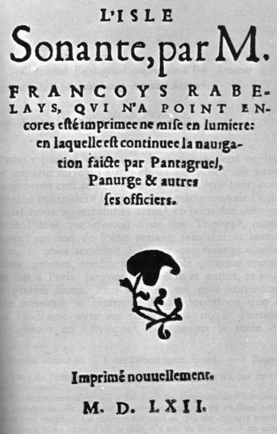 Title page of incomplete first edition of Rabelais's "Le cinquieme livre"